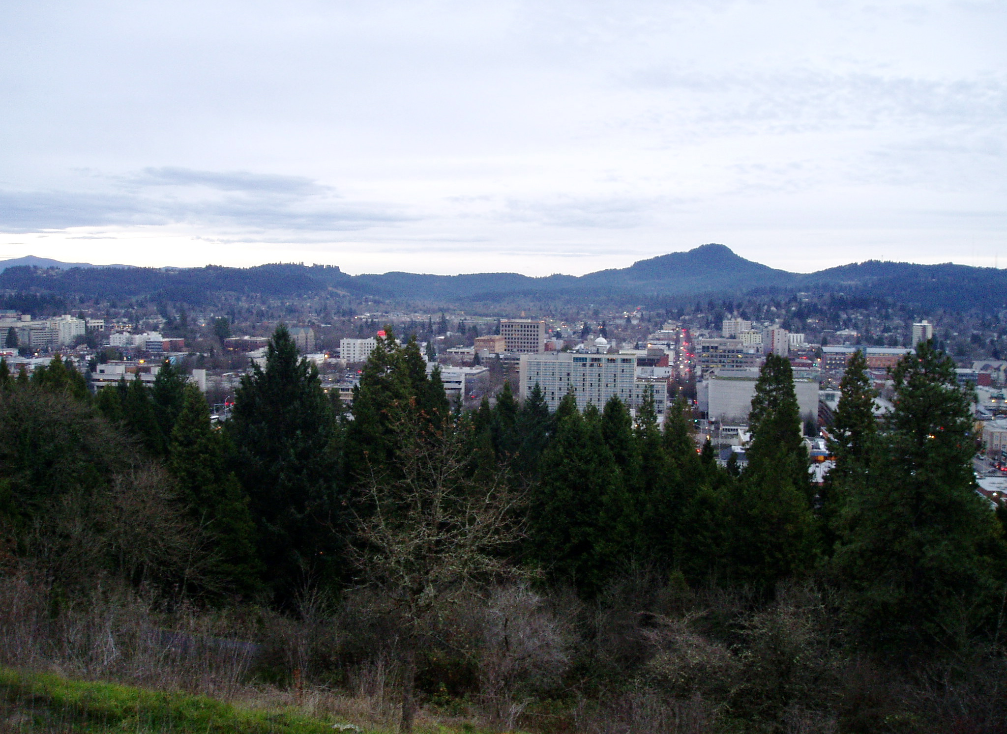 Downtown Eugene's skyline and Spencer Butte as seen from Skinner Butte in North Eugene